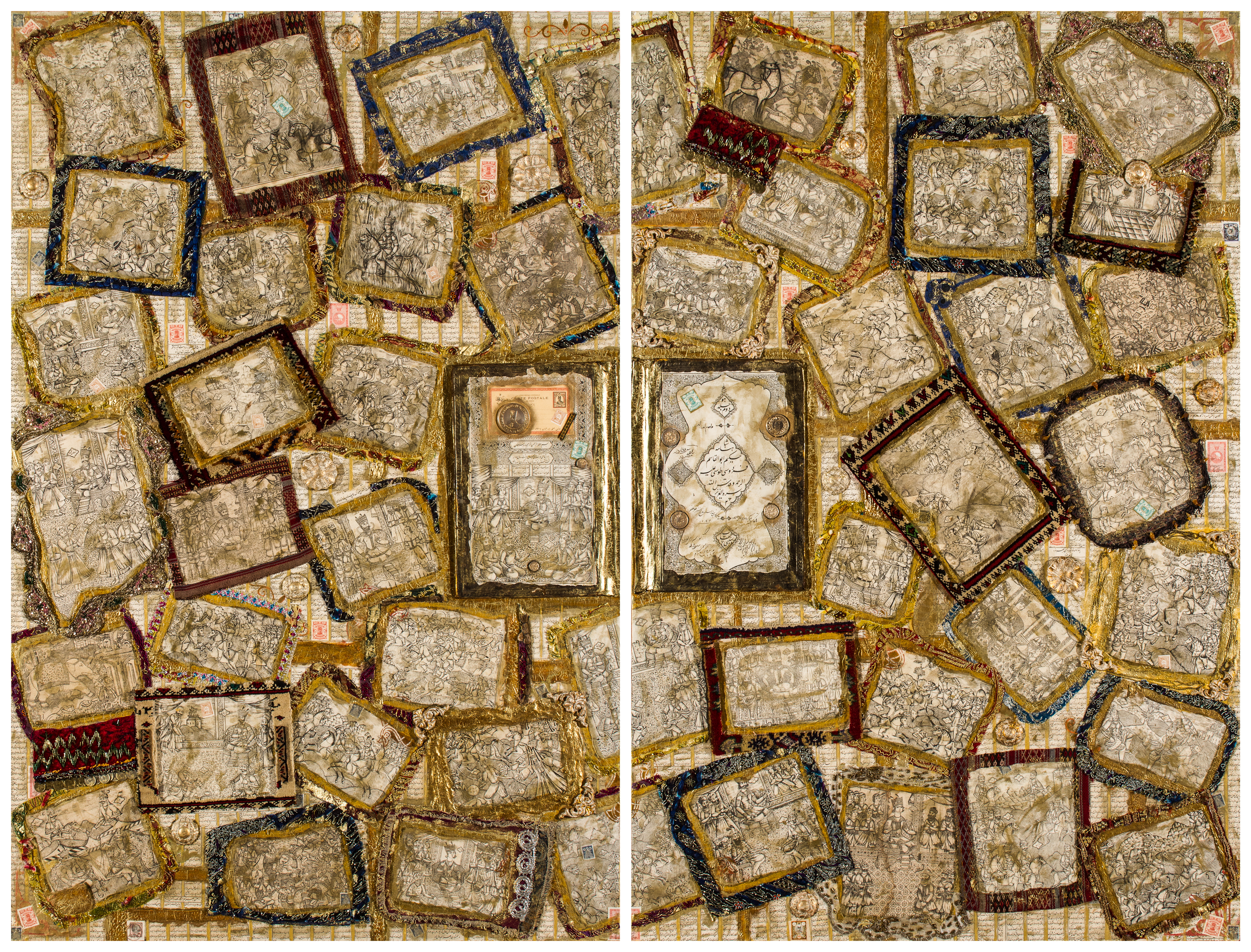 “This collage is based on the oldest Lithographic limestone version of Shahnameh dated Muharram, 1262 (lunar calendar). 1st Muharram of this year coincided with December 30, 1845 when this version of Shahnameh was printed, and such a coincidence, i.e., lunar new year and Gregorian new year being on the same time, is one of the remarkable points about this Shahnameh. This date coincides with 1223 of Solar Hijri calendar. This version was printed in India upon the order of Agha Mohammad Sadegh Saheb Shirazi, written by Abdolkarim Tabatabaei and painted by Mirza Mohammadali”, Farahani added. “In this collage painting, the following handicrafts were also used: kilim weaving, carpet weaving (using natural dyes such as indigofera and rubia , other dyes from roots, blossoms, leaves, fruits and skin of plants and dyes from animals like cochineal, curly shells and minerals including clay,” finally, he said. -Sermeh Embroidery (using gold and silver fibers formed like a spring) - Termeh Embroidery (valuable fabric made of silk) - Gold weaving (fabric made from gold) - Golabatoon Embroidery (fabric whose weft is made of pure silk and its warp is made of silver and gold Golabatoon fiber) - Woodcarving - Coinage art (Naseri silver coins / Naseri silver hammered coins) - Naseri Stamps